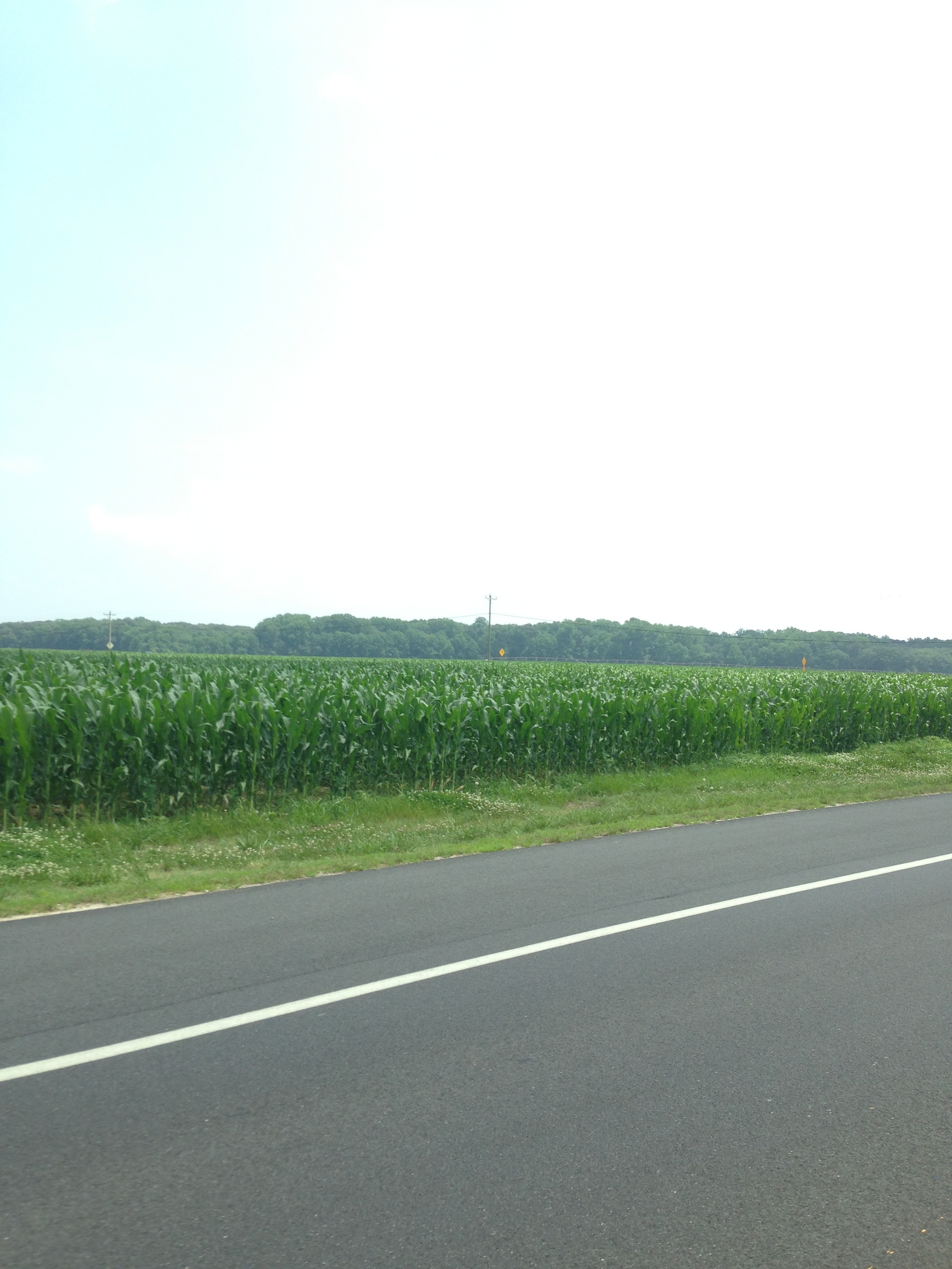 Corn growing along U.S. Route 9